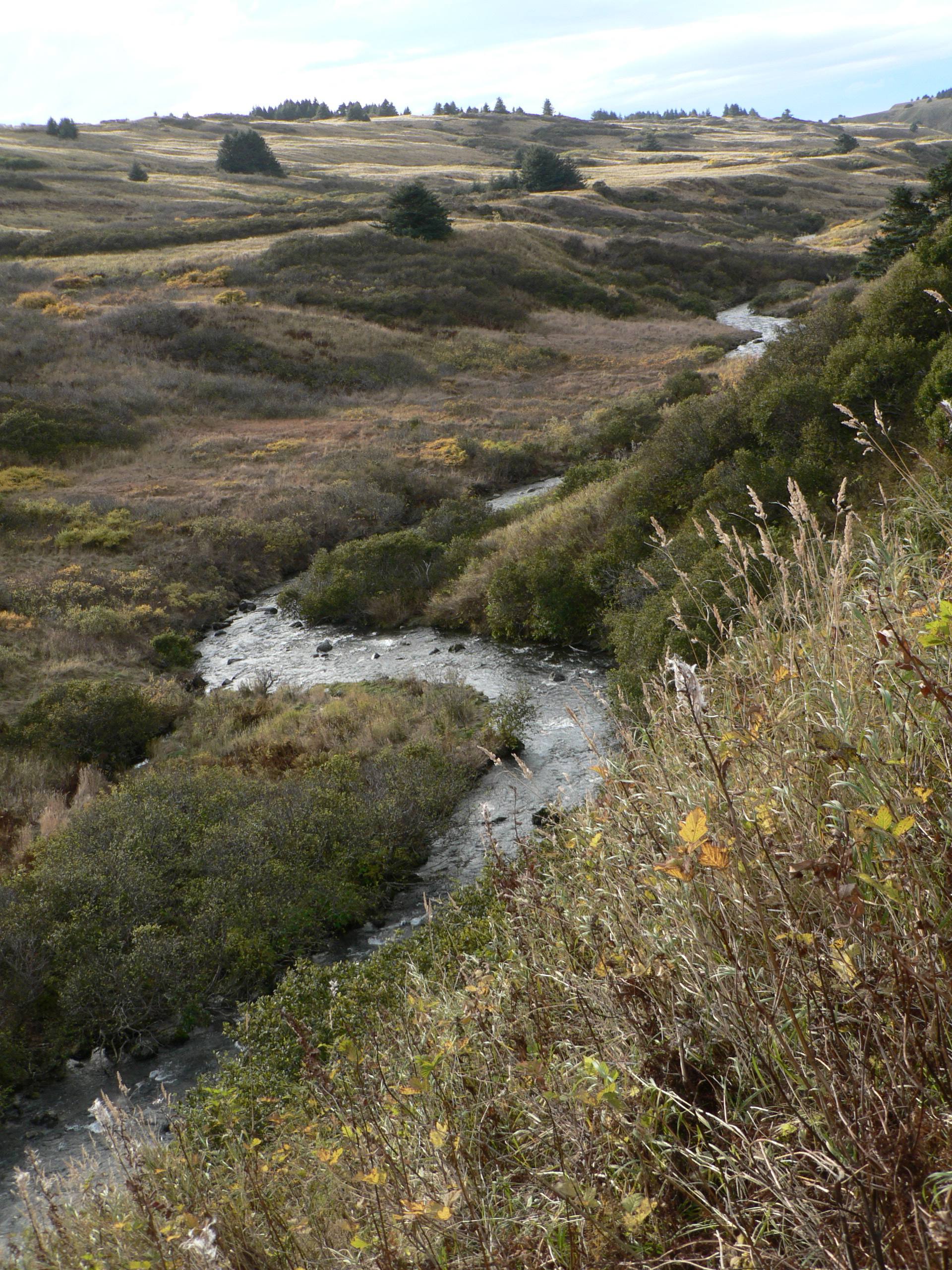 Photo, taken by me, on a recent trip to Afognak Island. Photo is of outflow from the lower Melina Lake.